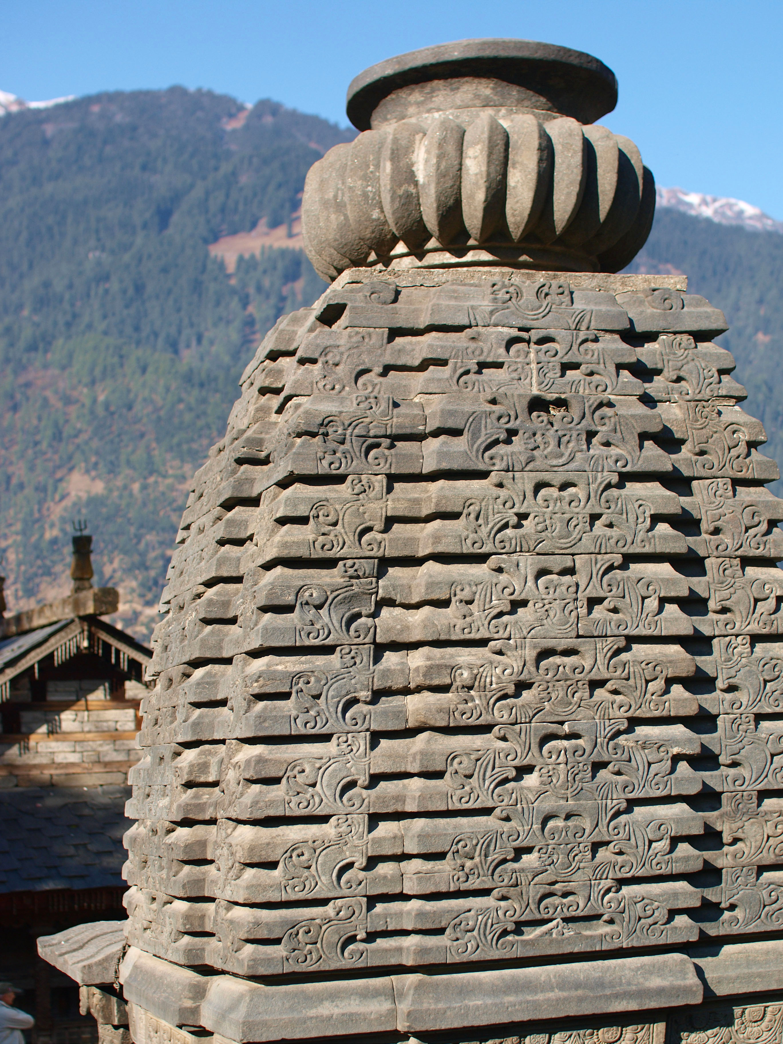 Ancient temple near Manali, Himachal Pradesh.